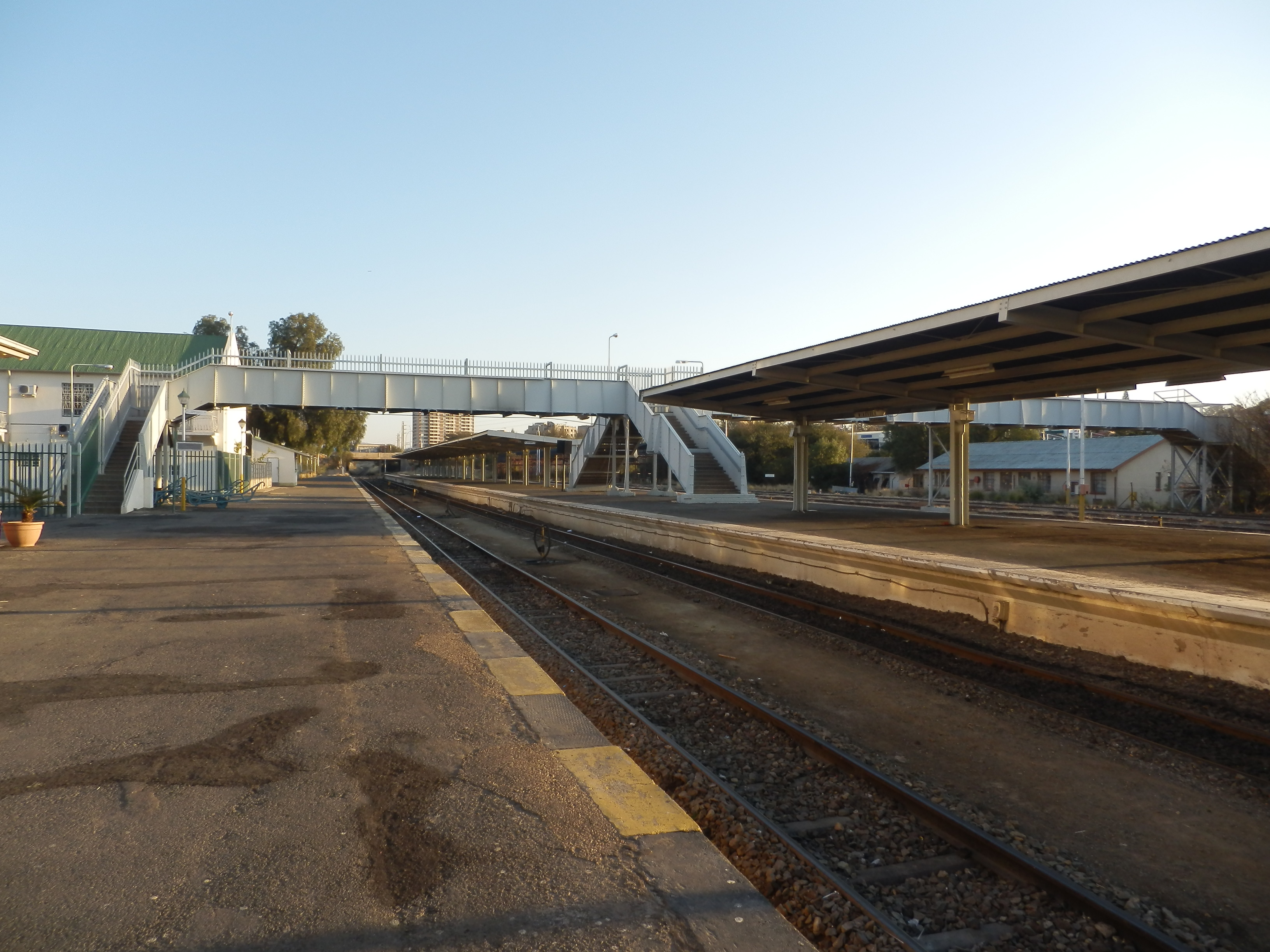 Platform and rail tracks at Windhoek Railway Station behind the historic main building